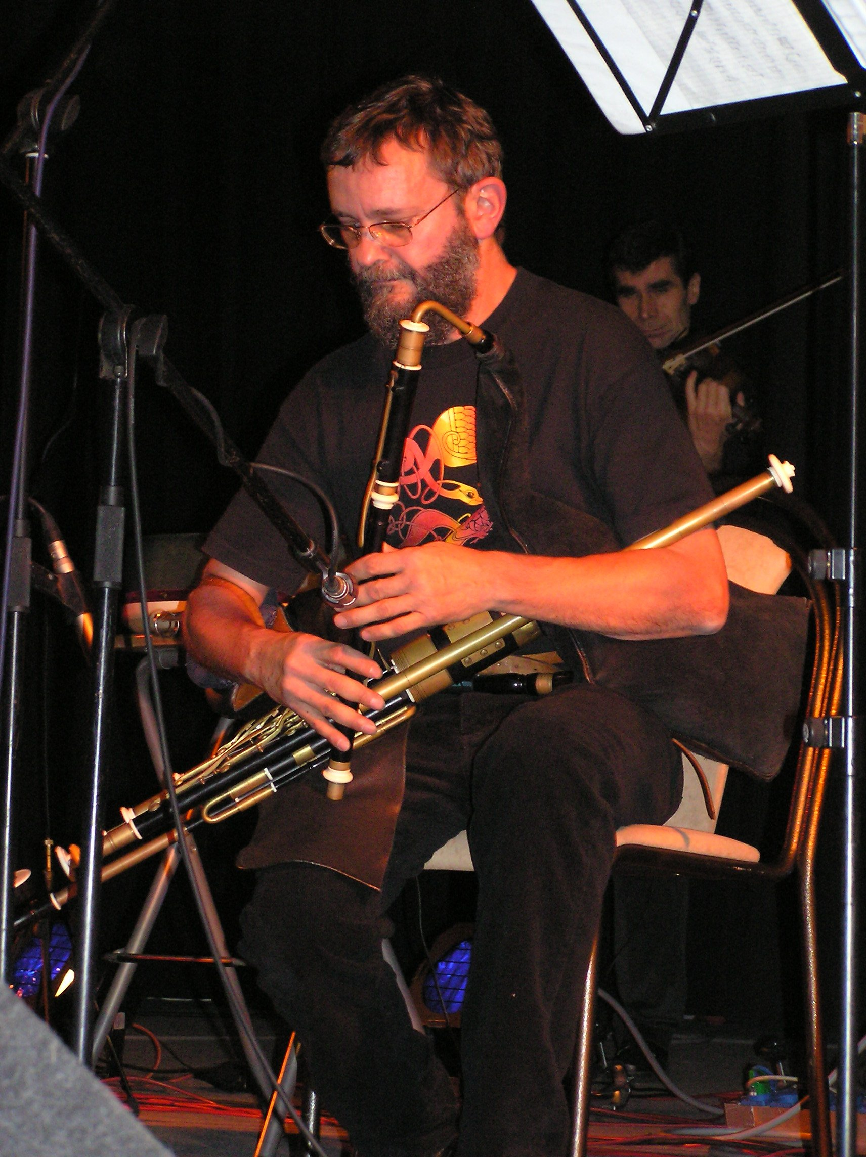 Jan Laštovička, art director of Asonance. 2006-10-15